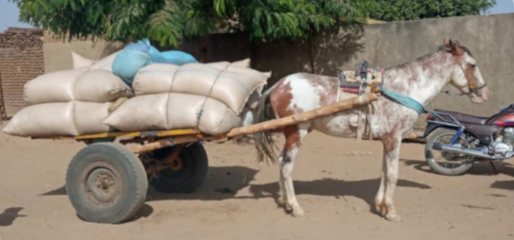 transport à cheval à amtiman This is an image with the theme "Africa on the Move or Transport" from: Chad